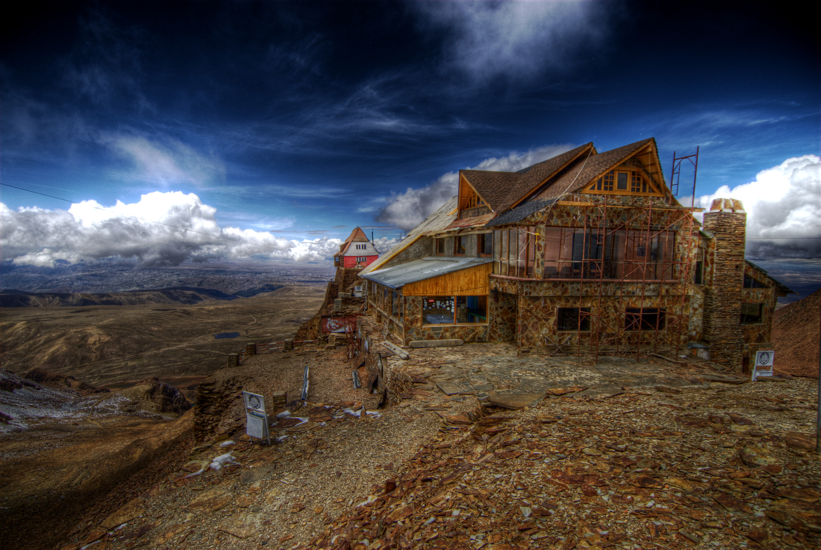 The world's highest ski resort at the Chacaltaya glacier in La Paz, Bolivia (Overaggressive tone mapping resulted in unrealistic colors (often incorrectly called HDR)).